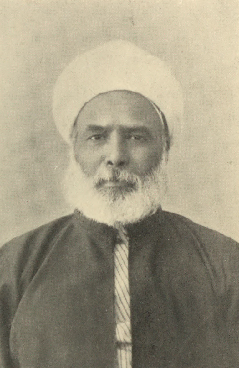 The late Grand Moufti